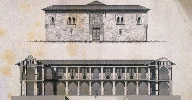 The Arab Hospital, Granada, Spain by Wellcome Library / Wellcome Images is licensed under a Creative Commons Attribution 2.0 UK: England & Wales License . Permissions beyond the scope of this license may be available at .